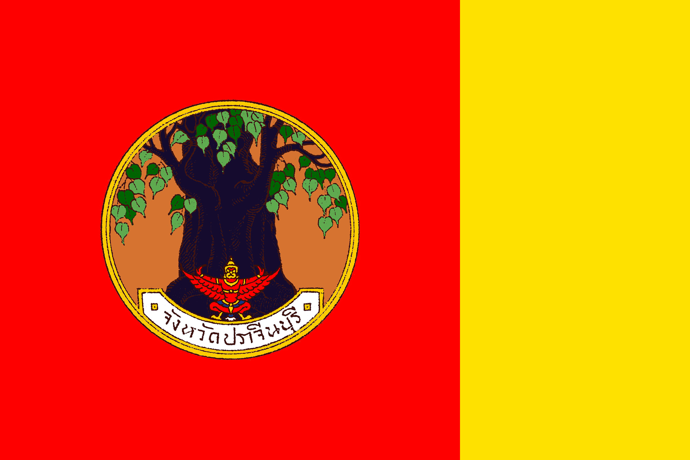 Flag of Prachin Buri Province